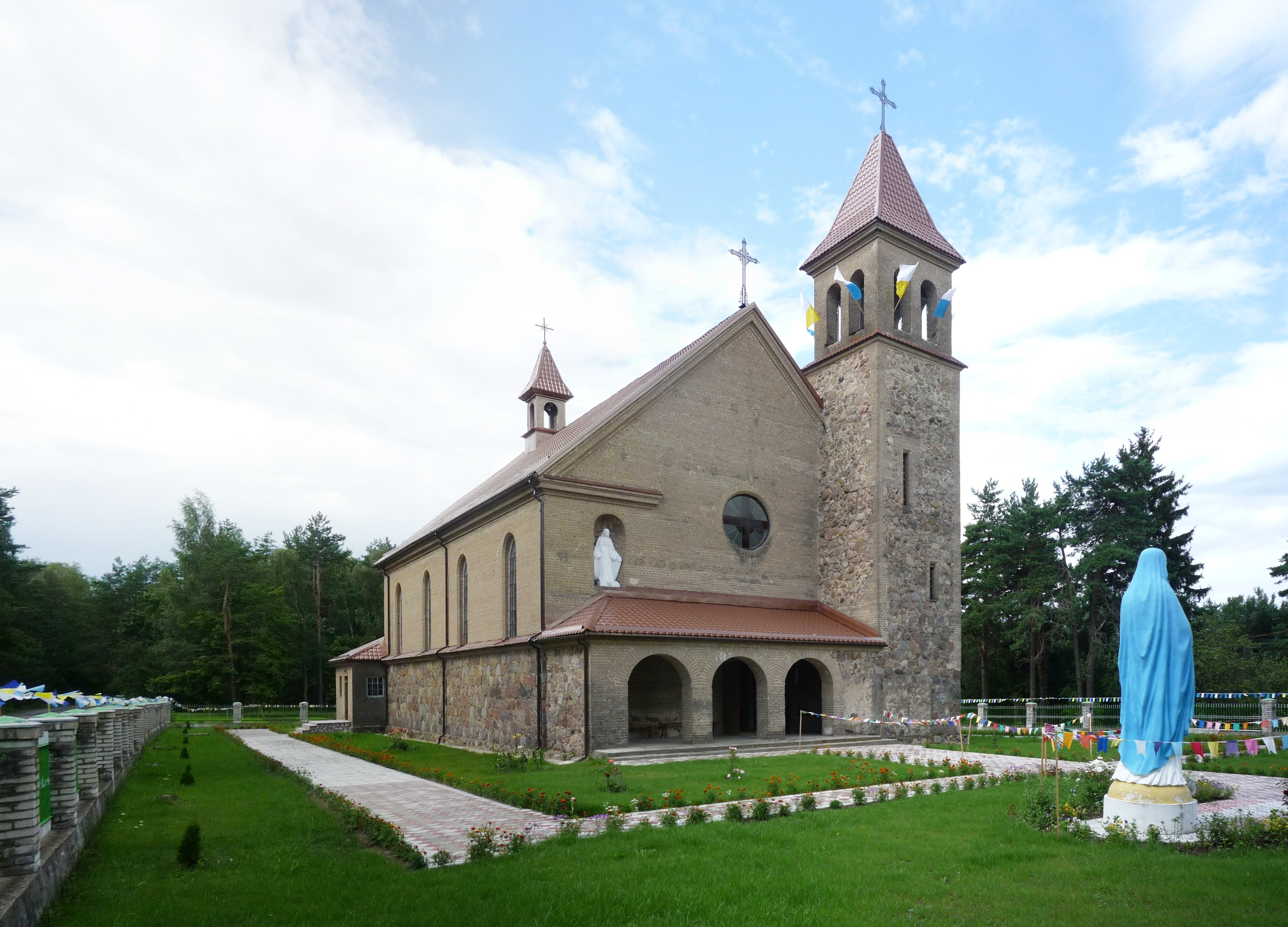 Беларуская (тарашкевіца): Касьцёл. в. Ідолта This is a photo of Belarusian heritage monument. Reference number: 213Г000557 ( WLM)